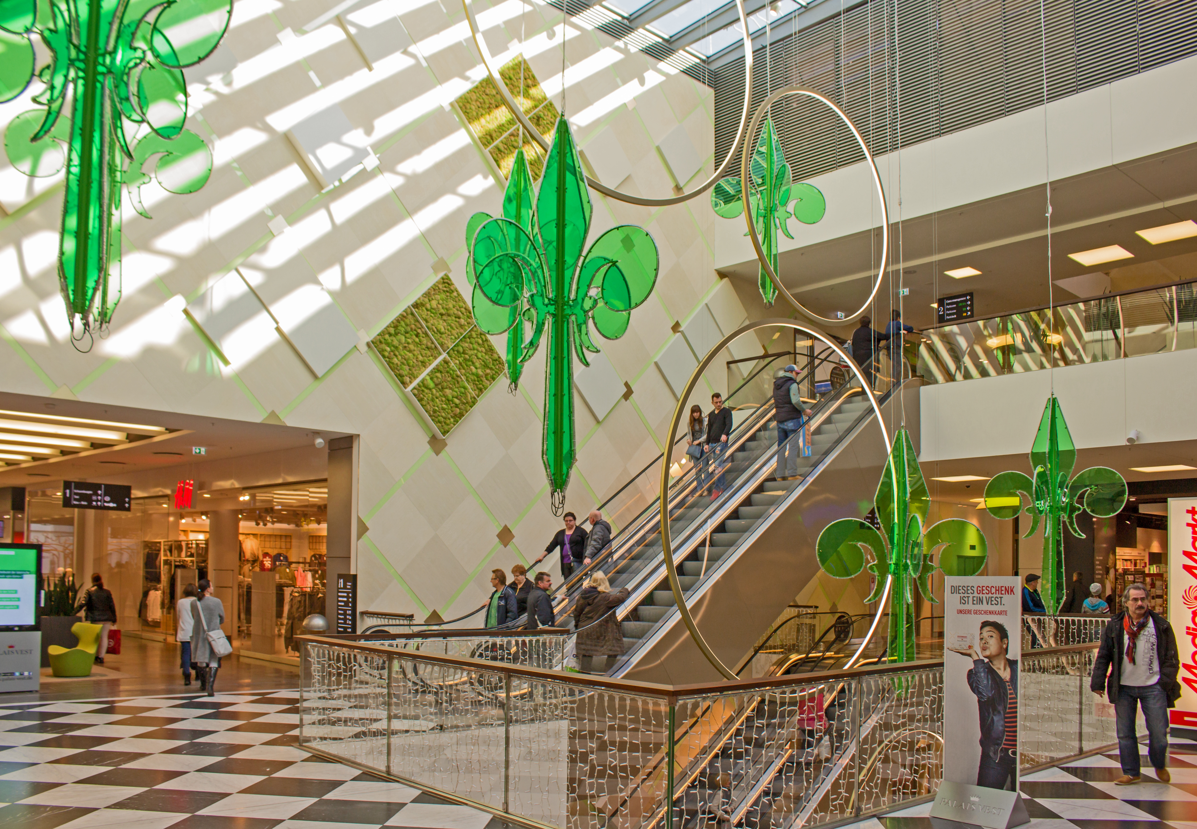 The "green salon" in the shopping center "Palais Vest" - Recklinghausen, North Rhine-Westphalia, Germany